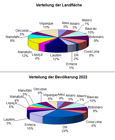 allocation of land area and poplation to the districts of East Timor in percent